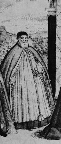 Image of Robert Horne, Bishop of Winchester, taken from Procession of the Knights of the Garter (sheet 2)